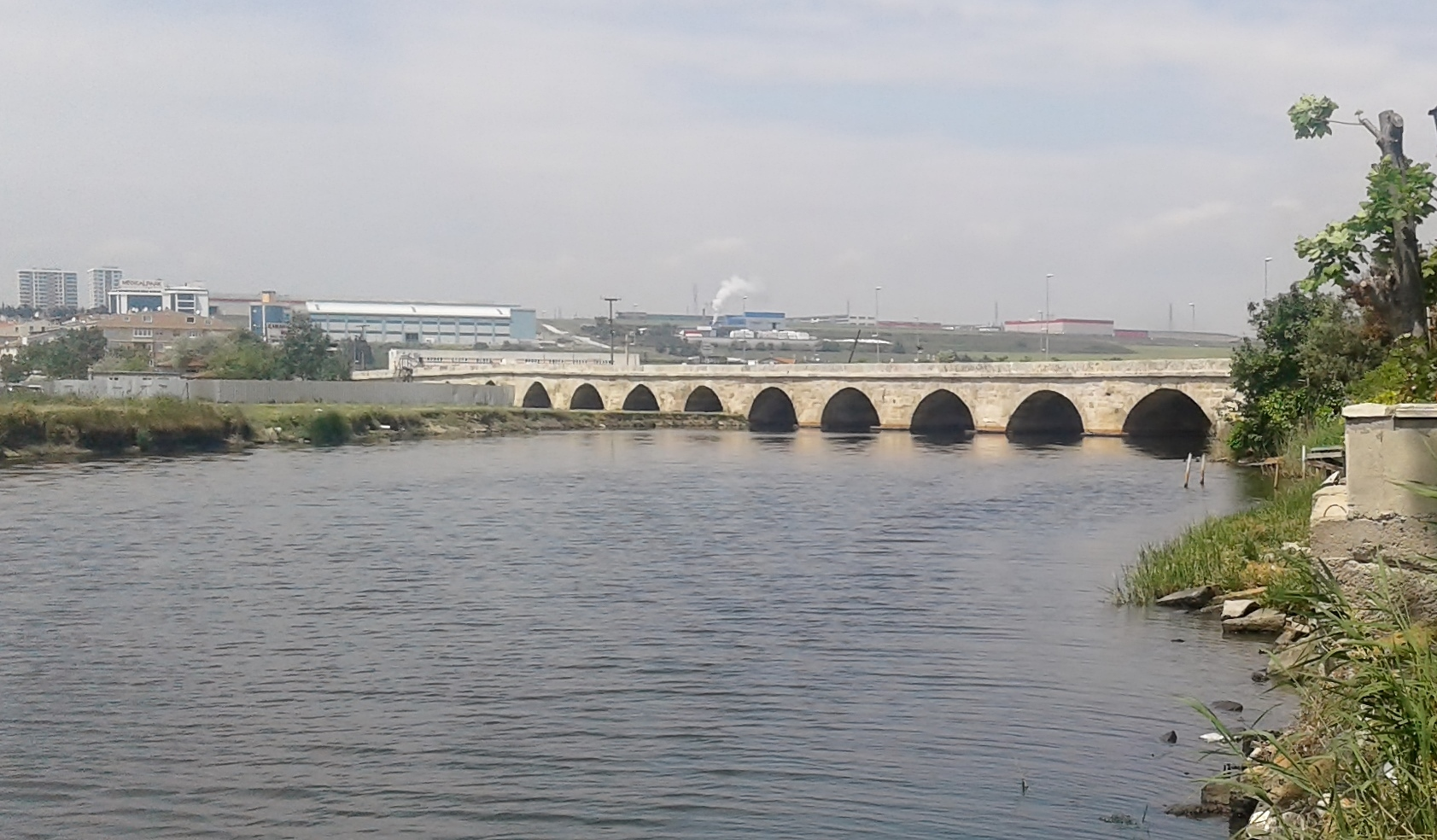 Mimar Sinan Bridge in Silivri, Istanbul Turkey